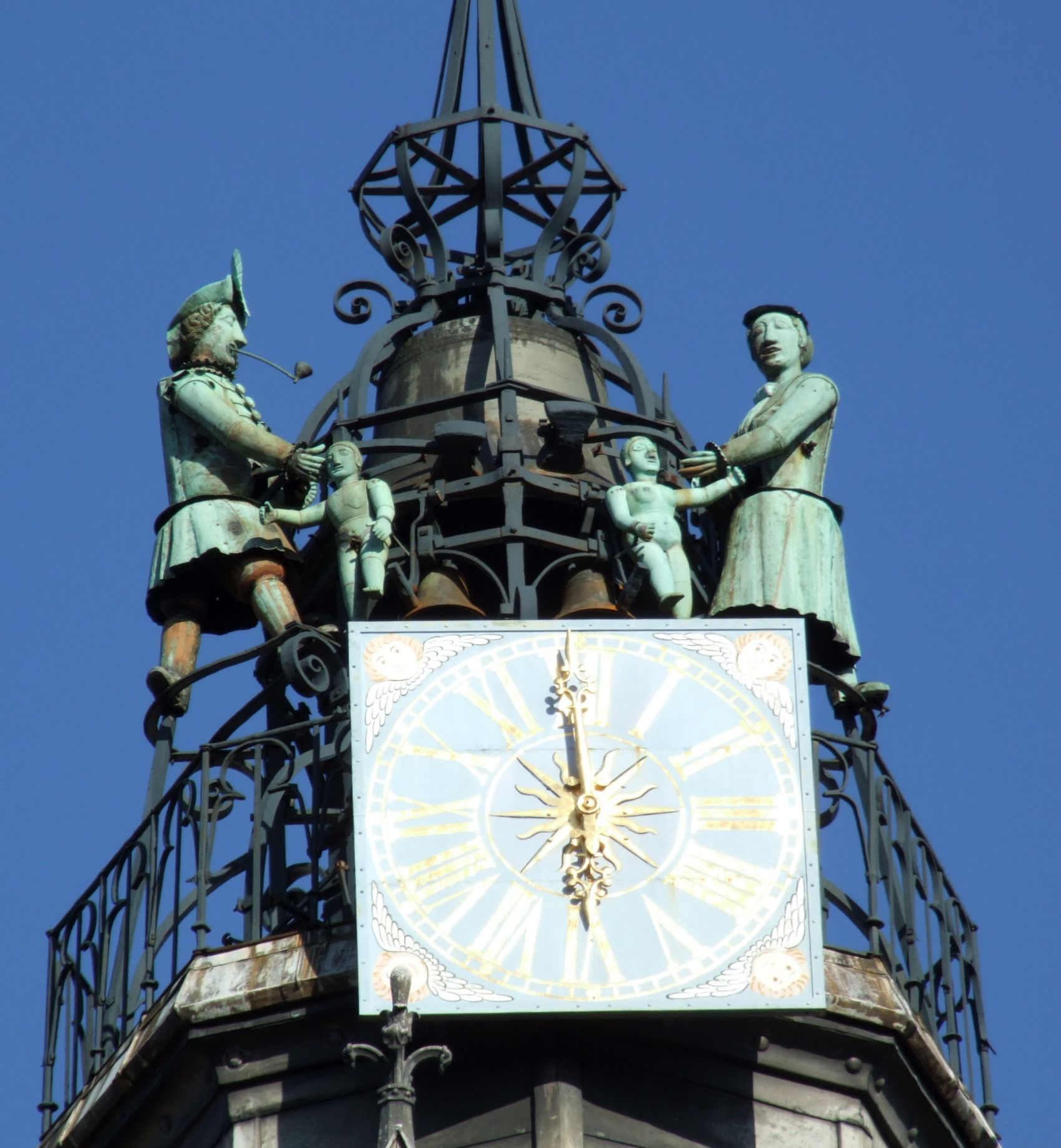 Dijon, Burgundy, France